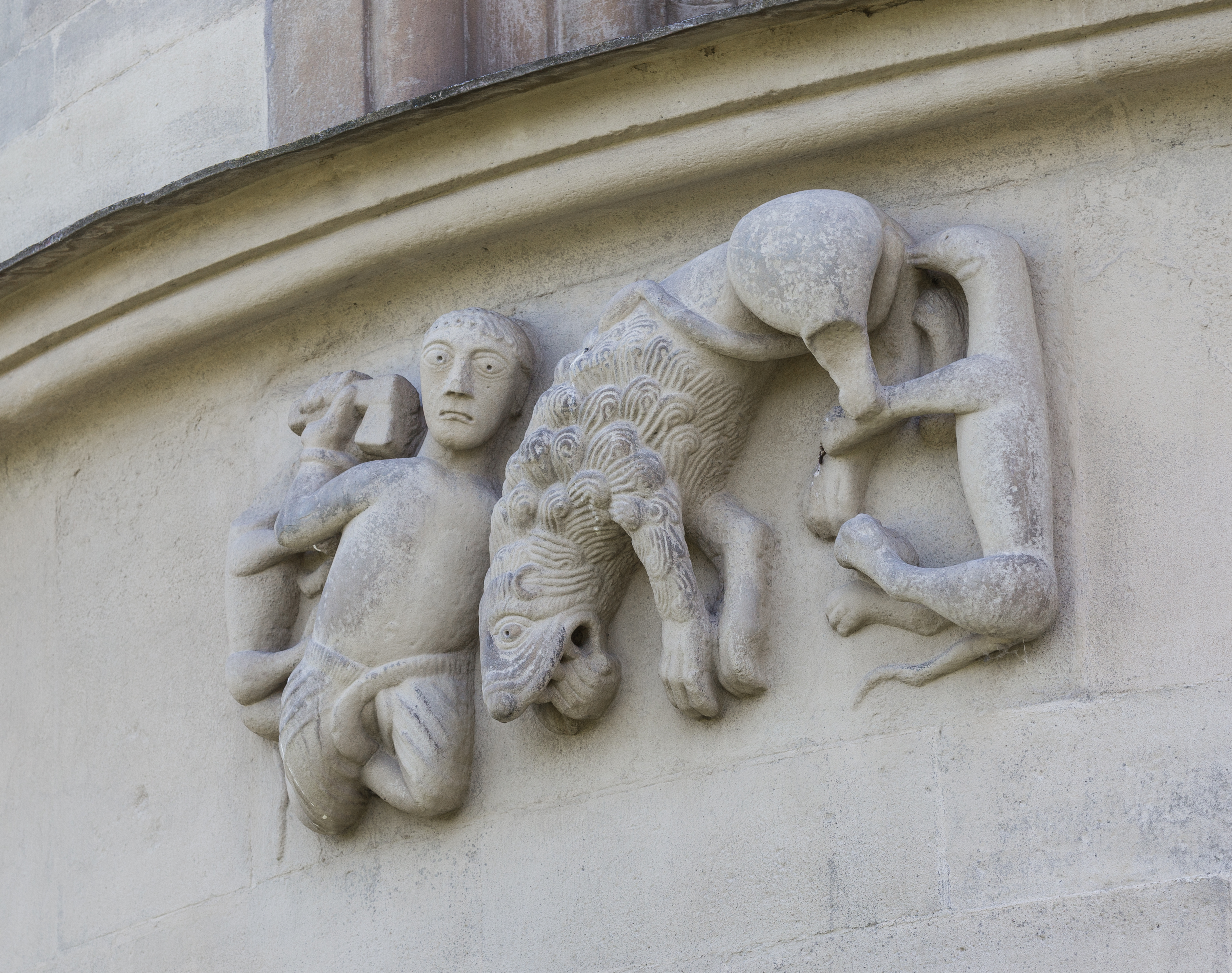 Romanesque figures (13th Century) at the outside of the apsis of the parish Church Schöngrabern, Lower Austria The making of this work was supported by Wikimedia Austria. For other files made with the support of Wikimedia Austria, please see the category Supported by Wikimedia Österreich.